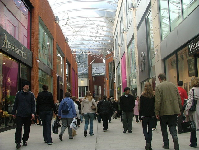 The Eden Shopping Centre, High Wycombe Photo taken on the first Saturday trading in the new shopping centre